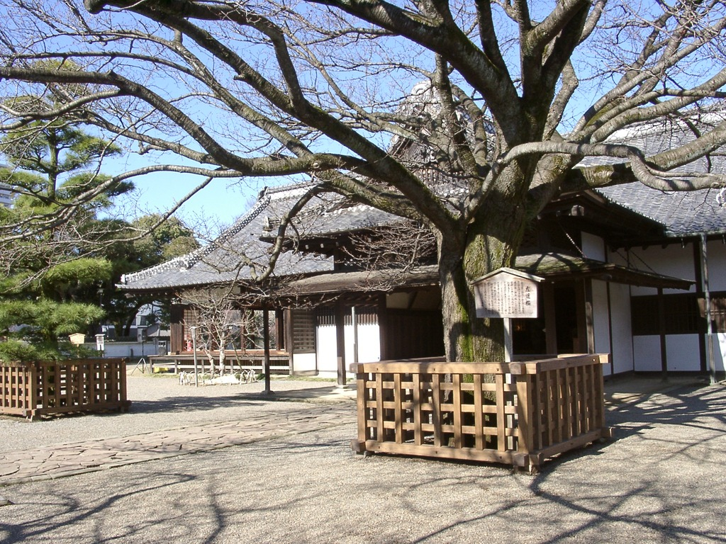 Koudoukan (Mito, Japan)